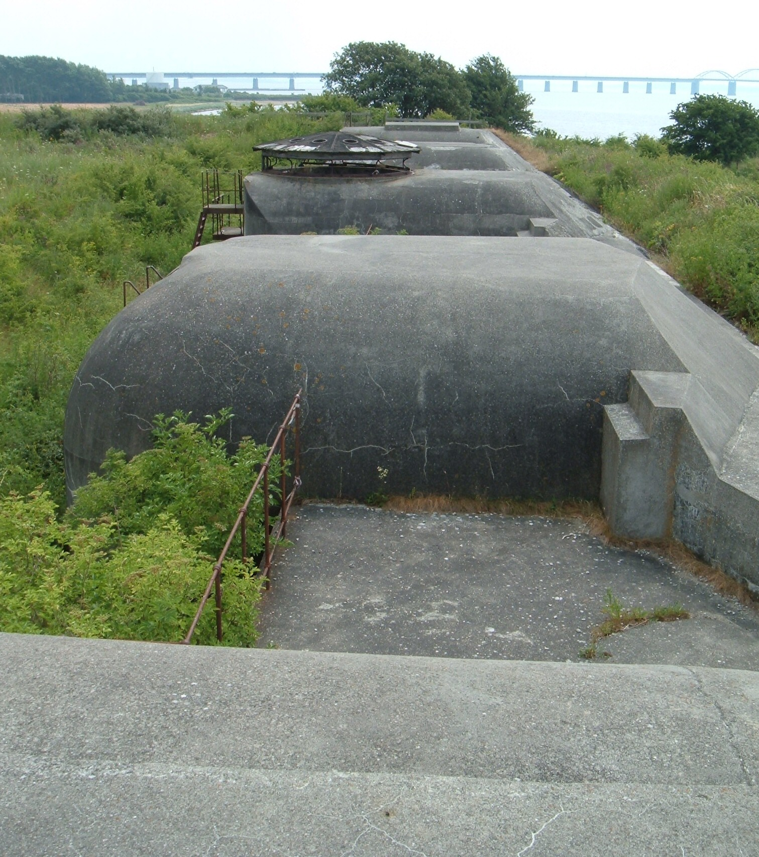 View of gun emplacement at Masnedøfort, on the island of Masnedø, Denmark. Taken by contributor July 2006.